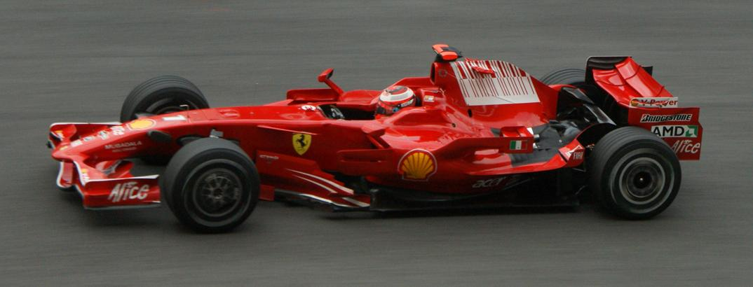 Kimi Räikkönen driving for Scuderia Ferrari at the 2008 Malaysian Grand Prix.